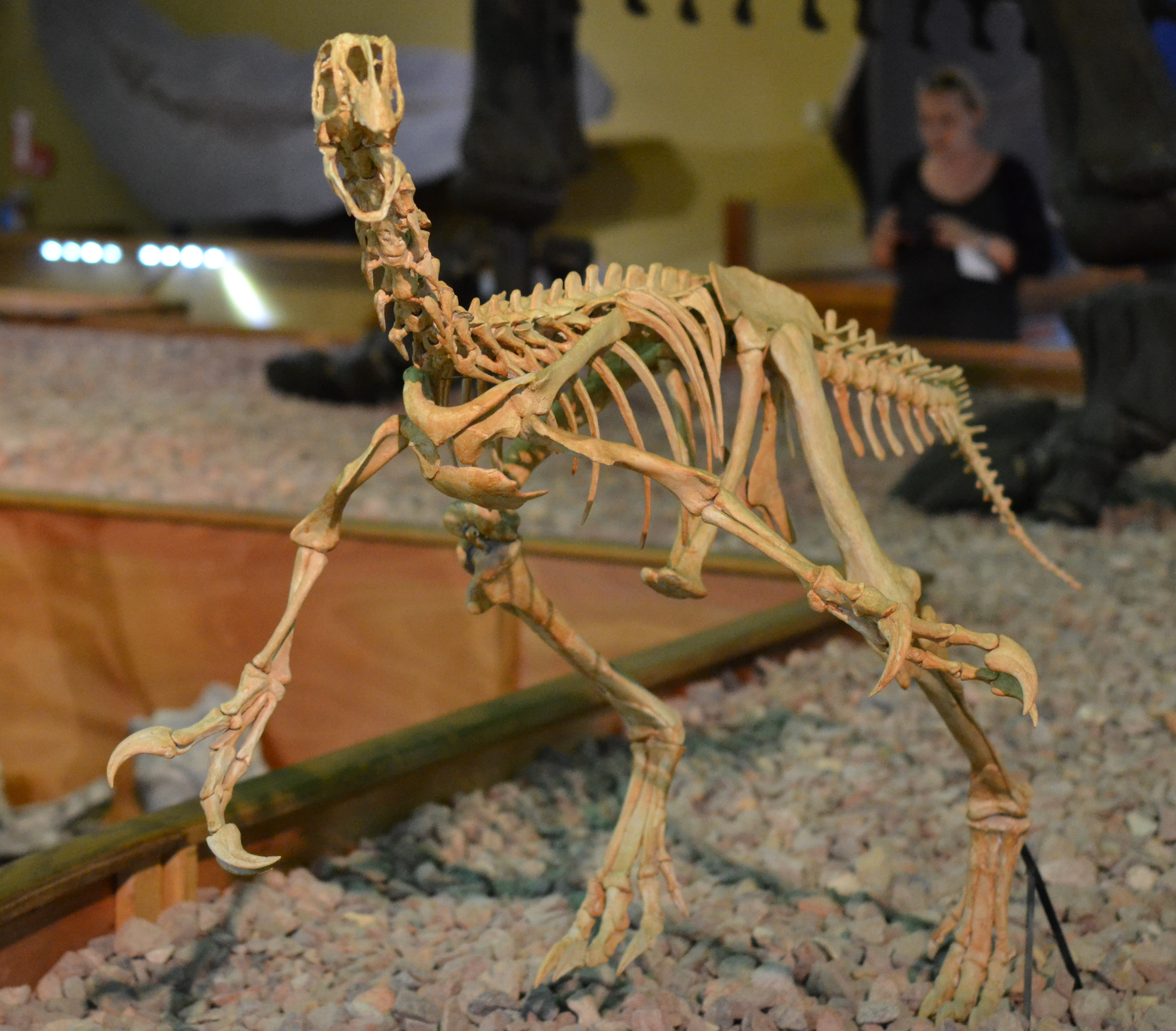 Wyoming Dinosaur Center